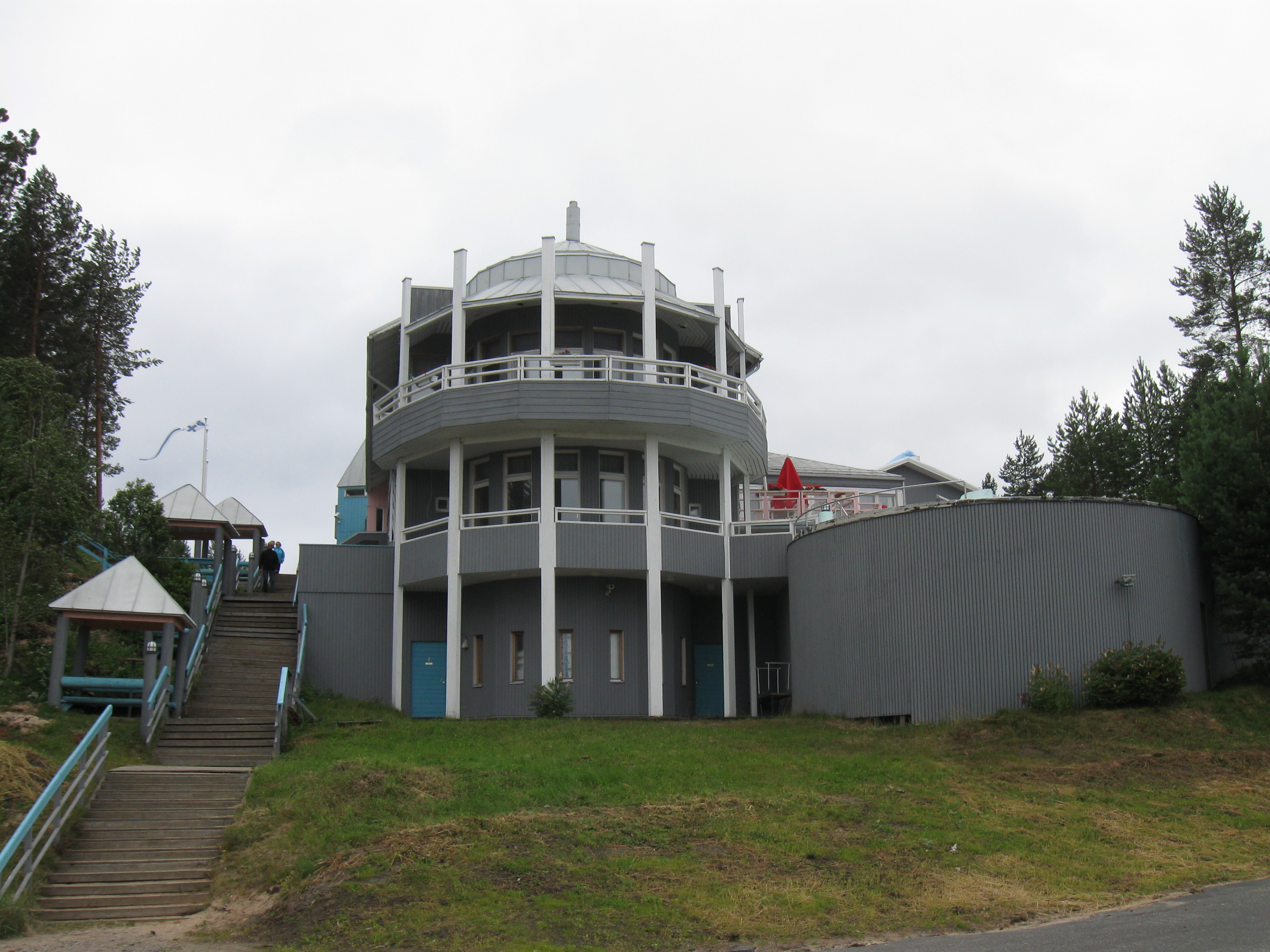 Restaurant Ruununhelmi at the lake Oulujärvi in Säräisniemi, Vaala, Finland.